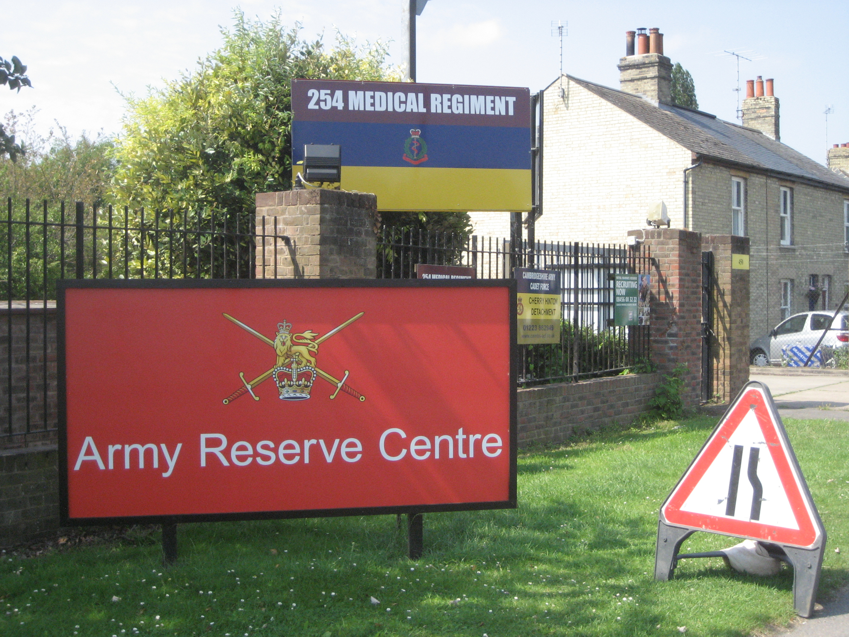 Army Reserves Centre, 254 Medical Regiment, Cambridge, England (UK)